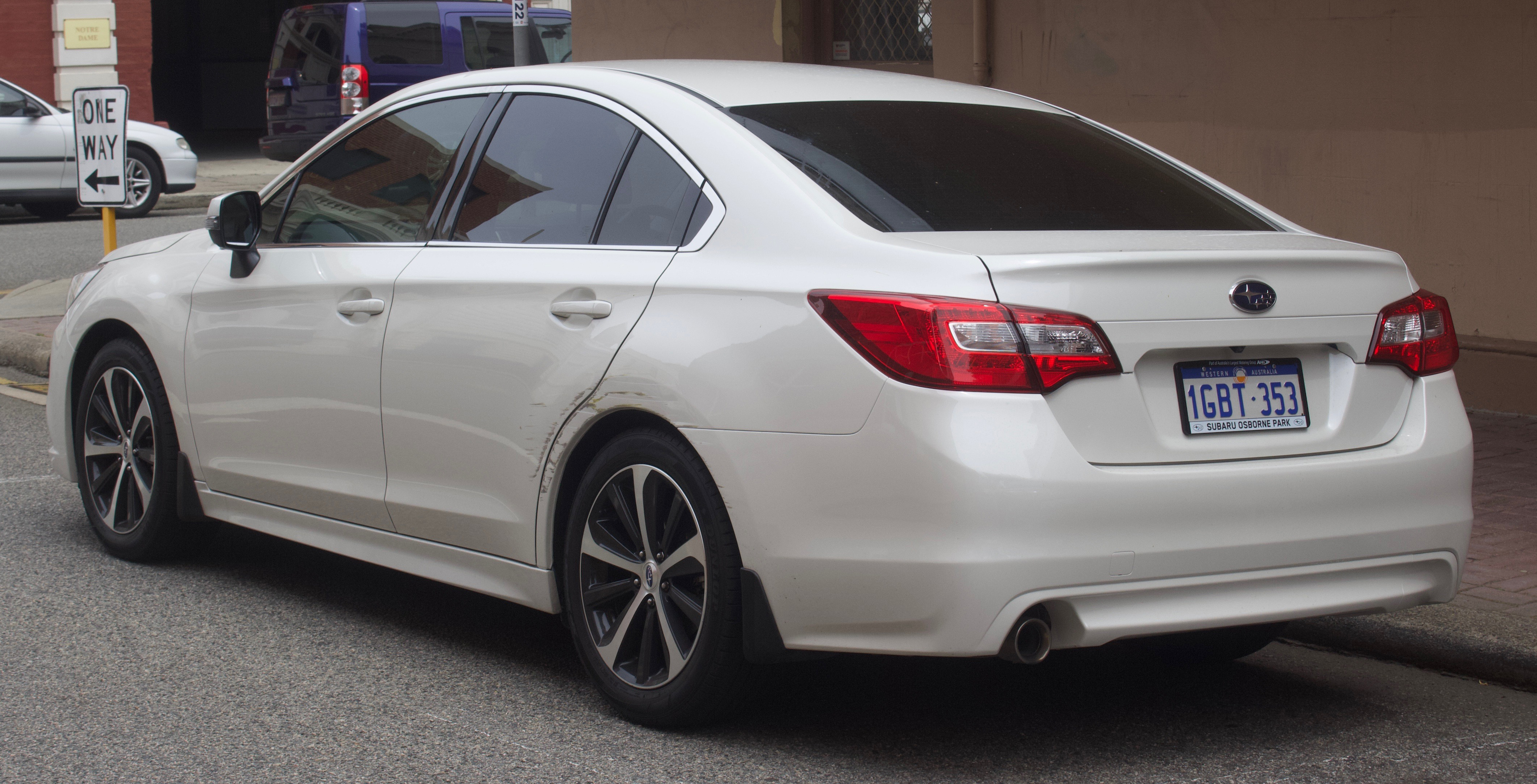 2016 Subaru Liberty (MY16) 2.5i sedan. Mind the scuff marks, they must have been there after an accident. The Liberty is one of my favourite Subarus after the Forester, Impreza and Outback. Photographed in Fremantle, Western Australia, Australia. Oh and for Vauxford, this isn't popular in the UK.